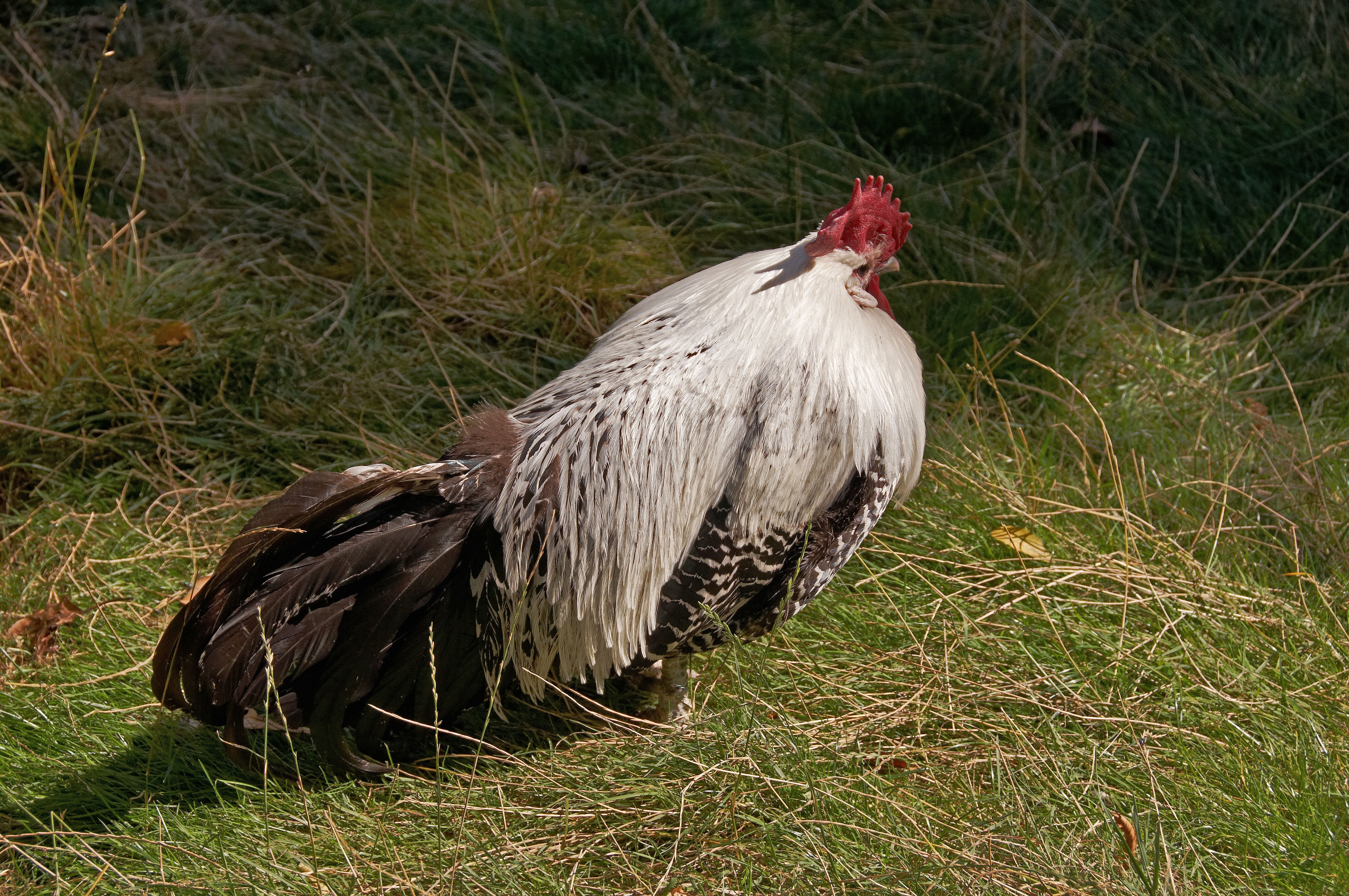 Braekel in the Kruidtuin in Leuven, Belgium